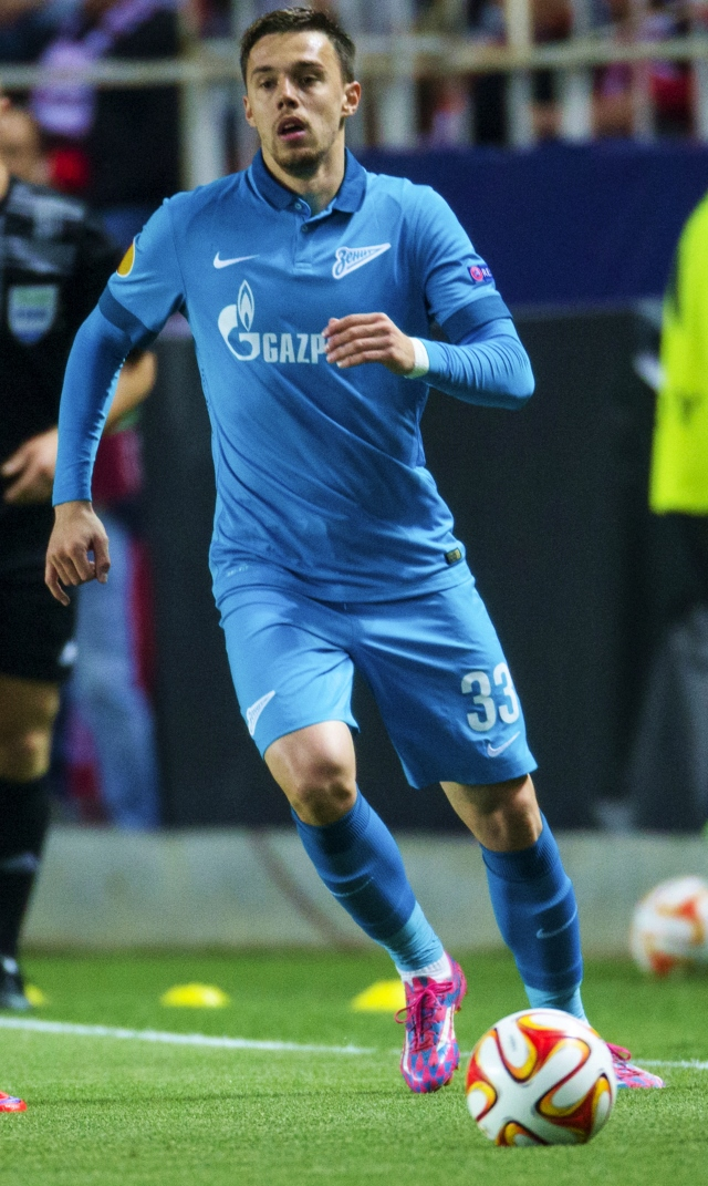 16.04.2015. Испания, Севилья, стадион «Эстадио Рамон Санчес Писхуан». Лига Европы УЕФА 2014/2015, 1/4 финала, «Севилья» — «Зенит». На снимке в синей форме: Милан Родич, защитник ФК «Зенит».